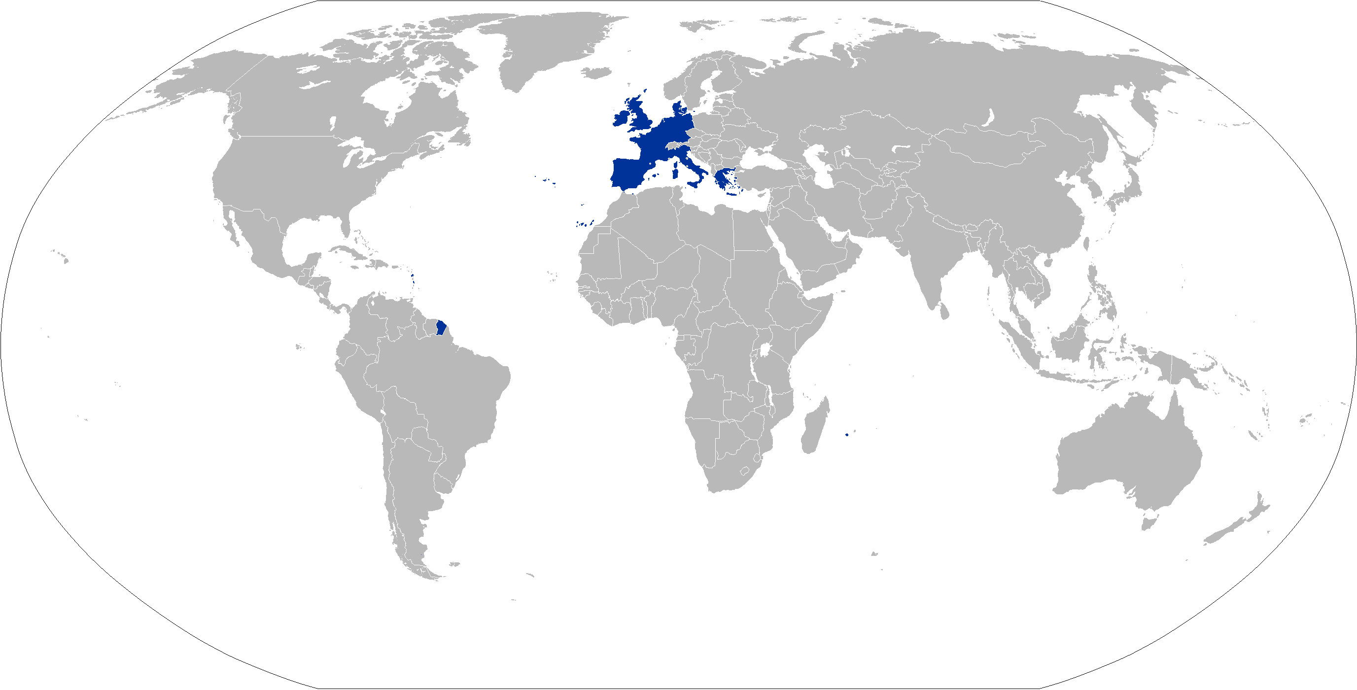 Map of the European Economic Community as it was succeeded the European Union in 1993 (the EU of 12 members).